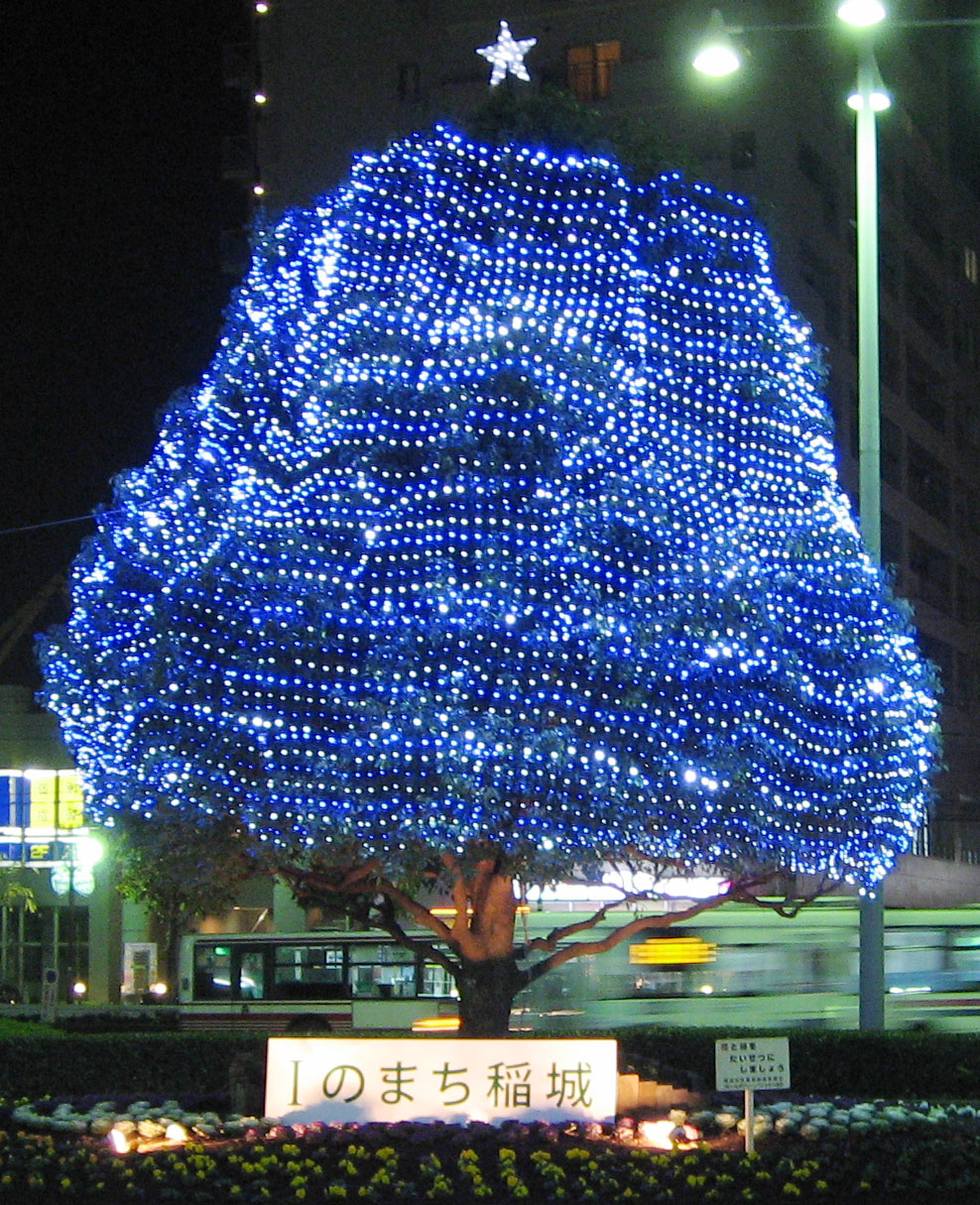 Illuminated tree in front of Inagi Station of Keiō Sagamihara Line, Tokyo, Japan.